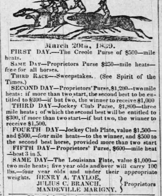 Times Picayune Ad March 13, 1839